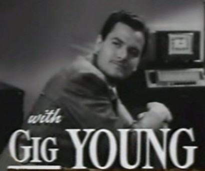 Cropped screenshot of Gig Young from the trailer for the film Old Acquaintance